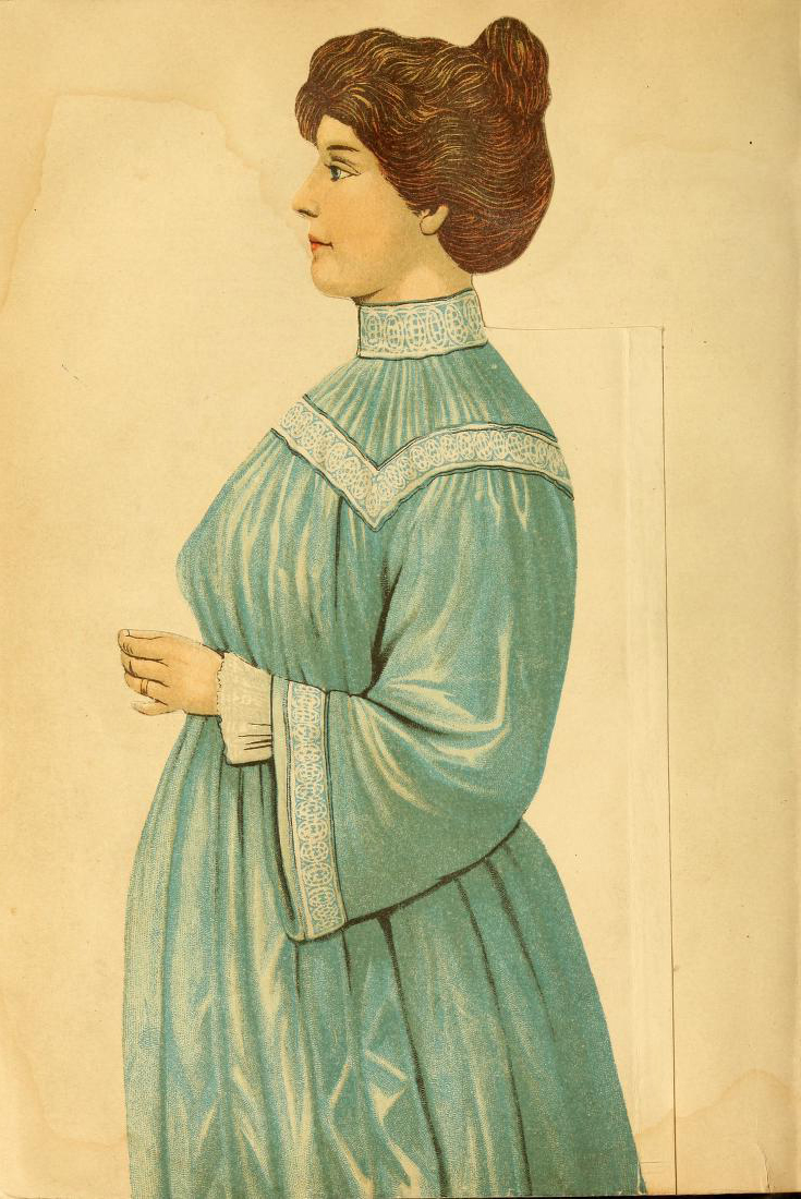 Maternity dress, American, c. 1905 Title: ... Woman in girlhood, wifehood, motherhood; her responsibilities and her duties at all periods of life; a guide in the maintenance of her health and that of her children Year: 1906 (1900s) Authors: Solis-Cohen, Myer Subjects: Women Child care Publisher: Philadelphia, Chicago (etc.) The J.C. Winston co Text Appearing Before Image: e womb at theend of pregnancy. 112. 91. The child in the womb. 113- 92. Placenta or after-birth. 93- Vagina. 114. 94- Labia minora. 115. 95- Labia majora. 116. 96. Anus. 117. 97- Bladder. 118. 98. Abdominal or belly cavity. 119. 99. Clitoris. 120. 100. Junction of the pubic bones. 121. (Cut across). (Same as No. 43). 122. IOI. The non-pregnant uterus. (Cutacross). Ovary. The round ligament supportingthe uterus. Fimbriated extremity of the ovi-duct or fallopian tube. Membrane dividing the two lobesof the great brain or cerebrum. Portion of the great brain or cere-brum. Cerebellum or little brain. (Cutacross). Medulla. The uppermost bone of the spine. Spinal cord. Esophagus or gullet. (Same asNo. 79). The most prominent bone of thespine. Trachea or wind-pipe. (Same asNo. 65). Cerebrum or great brain. Nasal center. Roof of mouth or hard palate. Soft palate. Tongue. Chin bone. Larynx or speaking box. Thyroid gland. (This sometimesbecomes a goitre). Breast bone or sternum. (Sameas No. 26). Text Appearing After Image: '